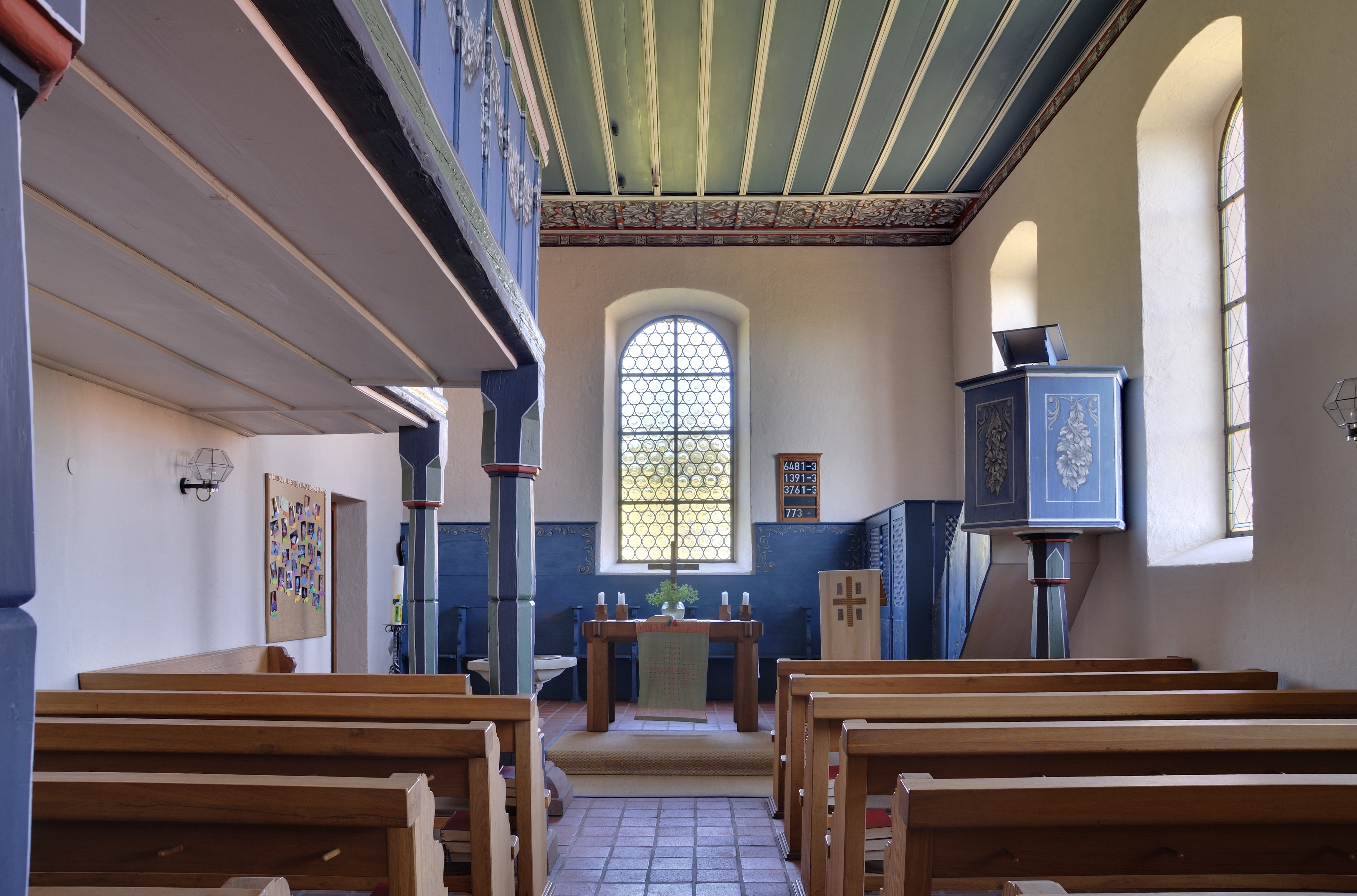 Gresgen: Protestant Church